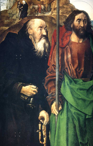 Retable - triptyque saint Antoine